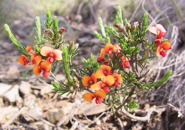 Dillwynia sericea foliage and flowers.